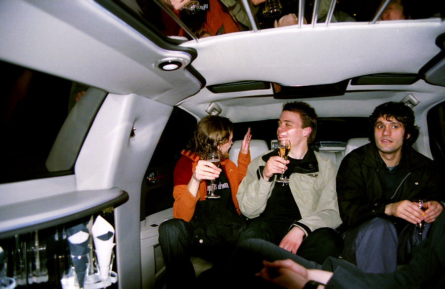 Photo of Premiere Screening of movie Elephants Dream, March 24, 2006